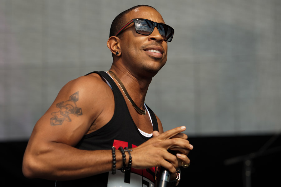 " and link the text to .